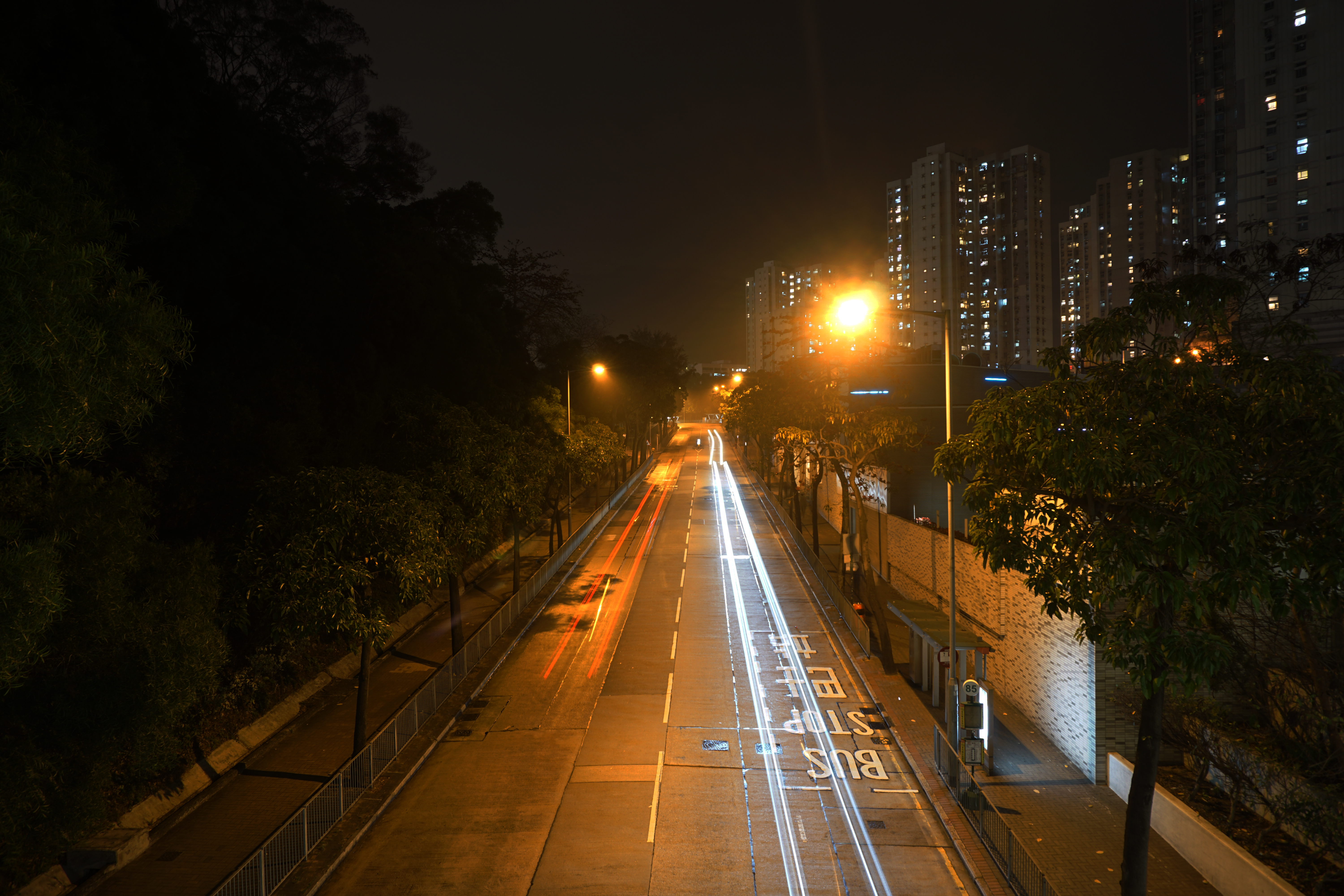 Junction Road in Lok Fu, Hong Kong.